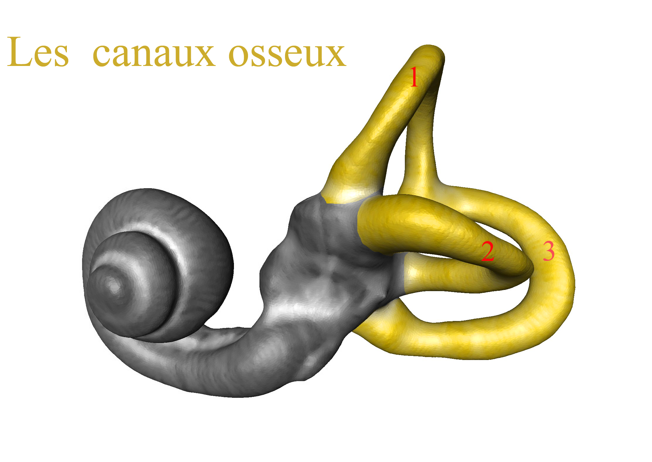 Human bony labyrinth / Computed tomography 3D / semicircular canals 1) Superior semicircular canal 2 ) Lateral semicircular canal 3) Posterior semicircular canal